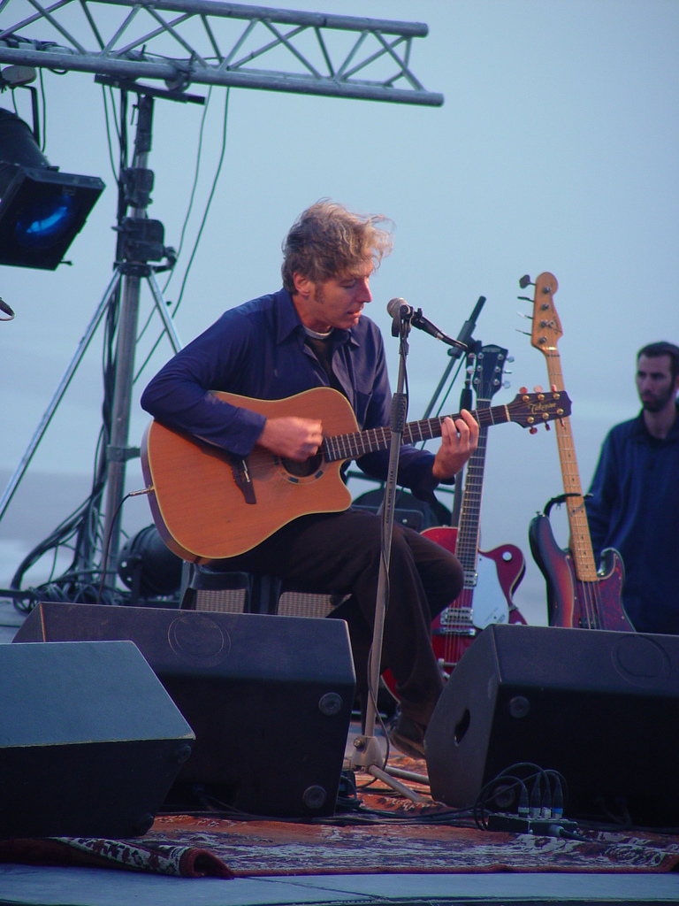 Berry Sakharof, an Israeli rock guitarist, songwriter and singer. This was taken during the closing act of the "Tamar Festival" called "Micha and Friends" on Messada Mt. near the dead sea.